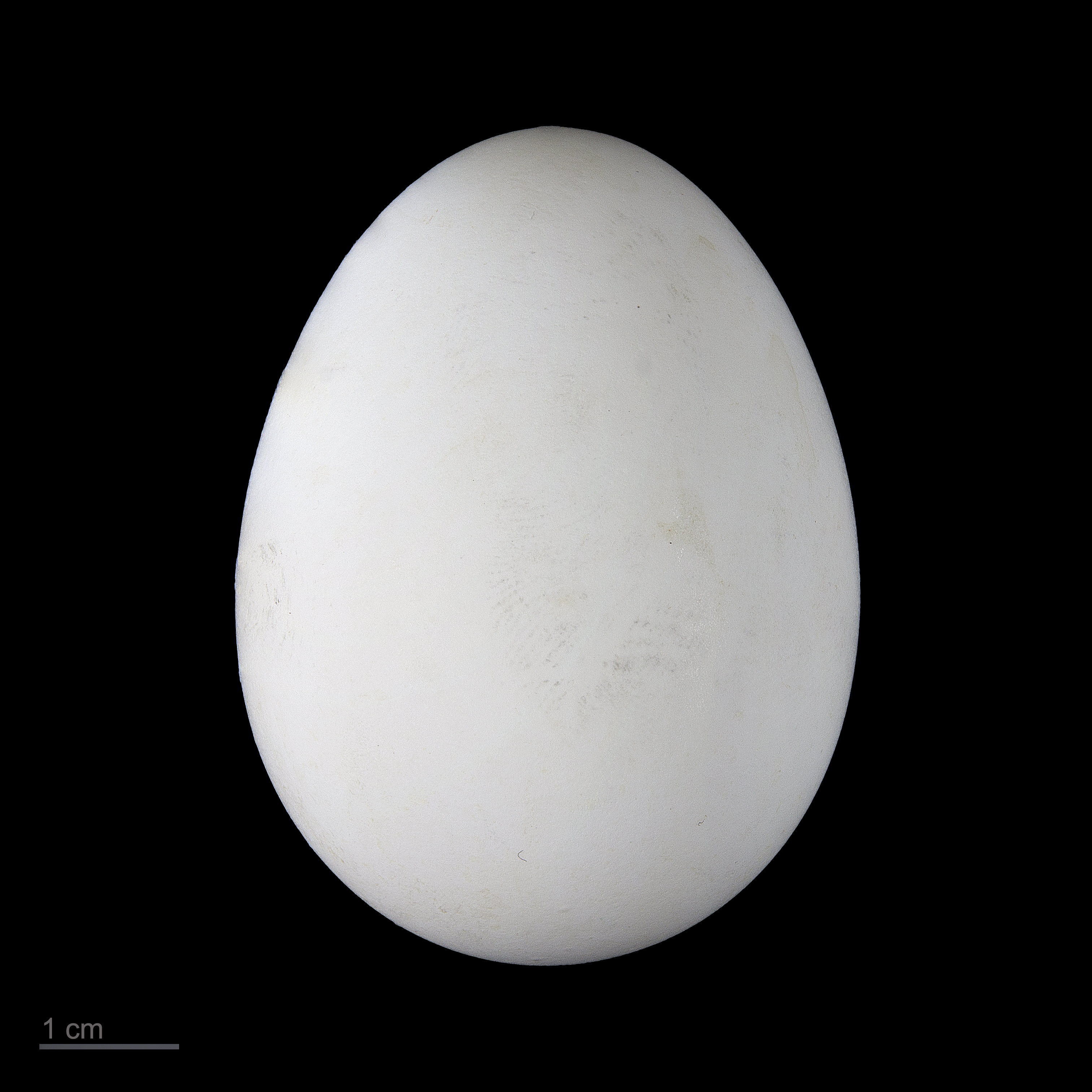 Eggs of Pterodroma mollis collection of Jacques Perrin de Brichambaut.